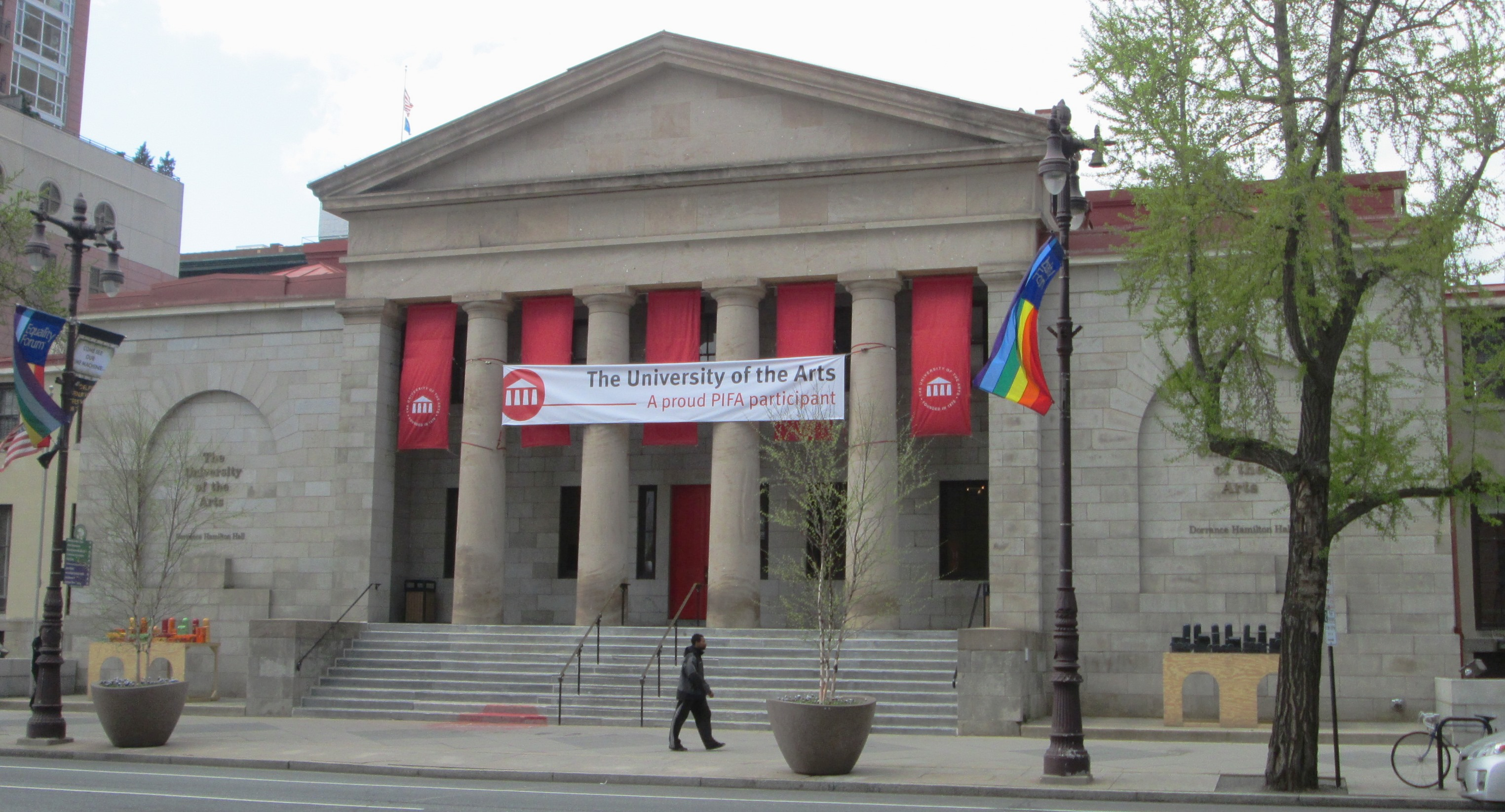 The University of the Arts' Dorrance Hamilton Hall at 320 S. Broad Street at the corner of Pine Street and running west to S. 15th Street and north to Delancey Street, in the Avenue of the Arts cultural district of Center City, Philadelphia, was built in 1824-26 for the Pennsylvania Institution for the Deaf and Dumb, and was designed by John Haviland in the Greek Revival style. In 1838, William Strickland added wings to the building to the north and south of Haviland's original structure, then, in 1875, Frank Furness designed two Victorian Gothic wings that connected the building to 15th Street. The building was purchased by the Pennsylvania Museum and School of Industrial Art in 1893, and this institution eventually became the University of the Arts. It is the oldest extant building on Broad Street. (Source: "Dorrance Hamilton Hall" on the University website)